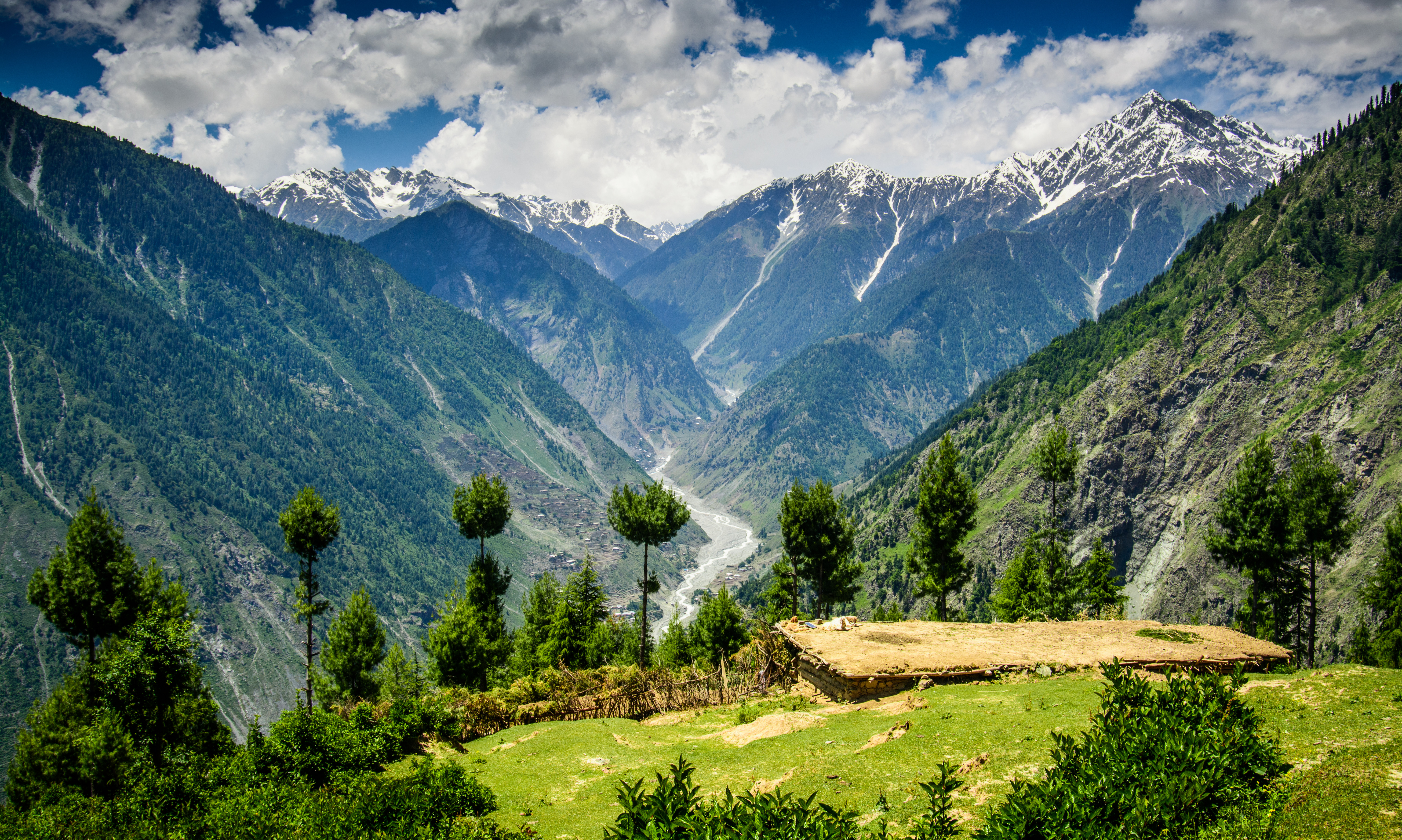 Landscape from Baanw Shaikhdara Kohistan